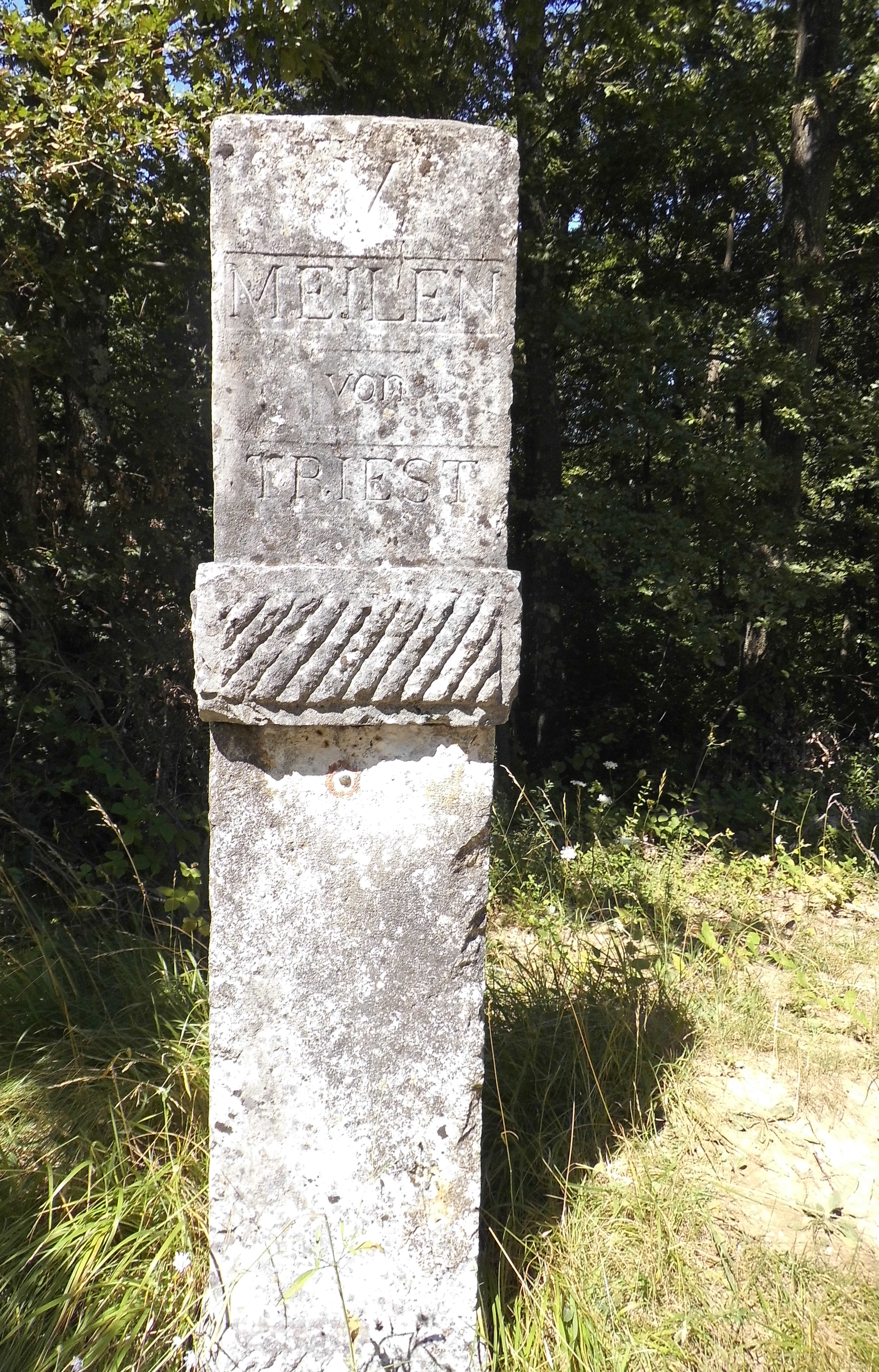 Milestone indicating 5 (V) [Austrian] miles from Trieste, 1 mile is 7'586 meters. Srpskohrvatski / српскохрватски: Miljokaz, Čepić